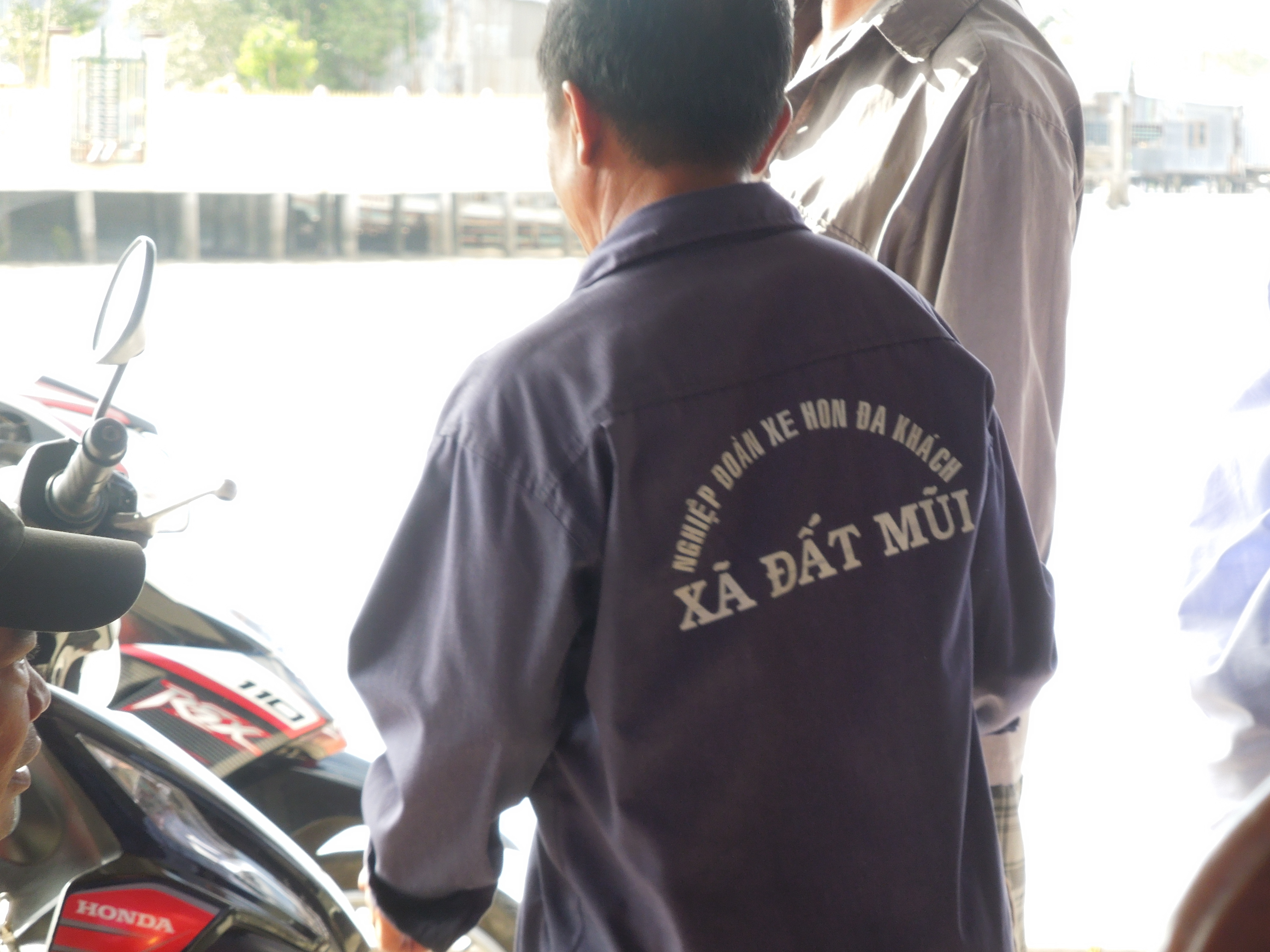 Uniform of Honda motorbike taxi union at Dat Mui village(southmost of Vietnam).